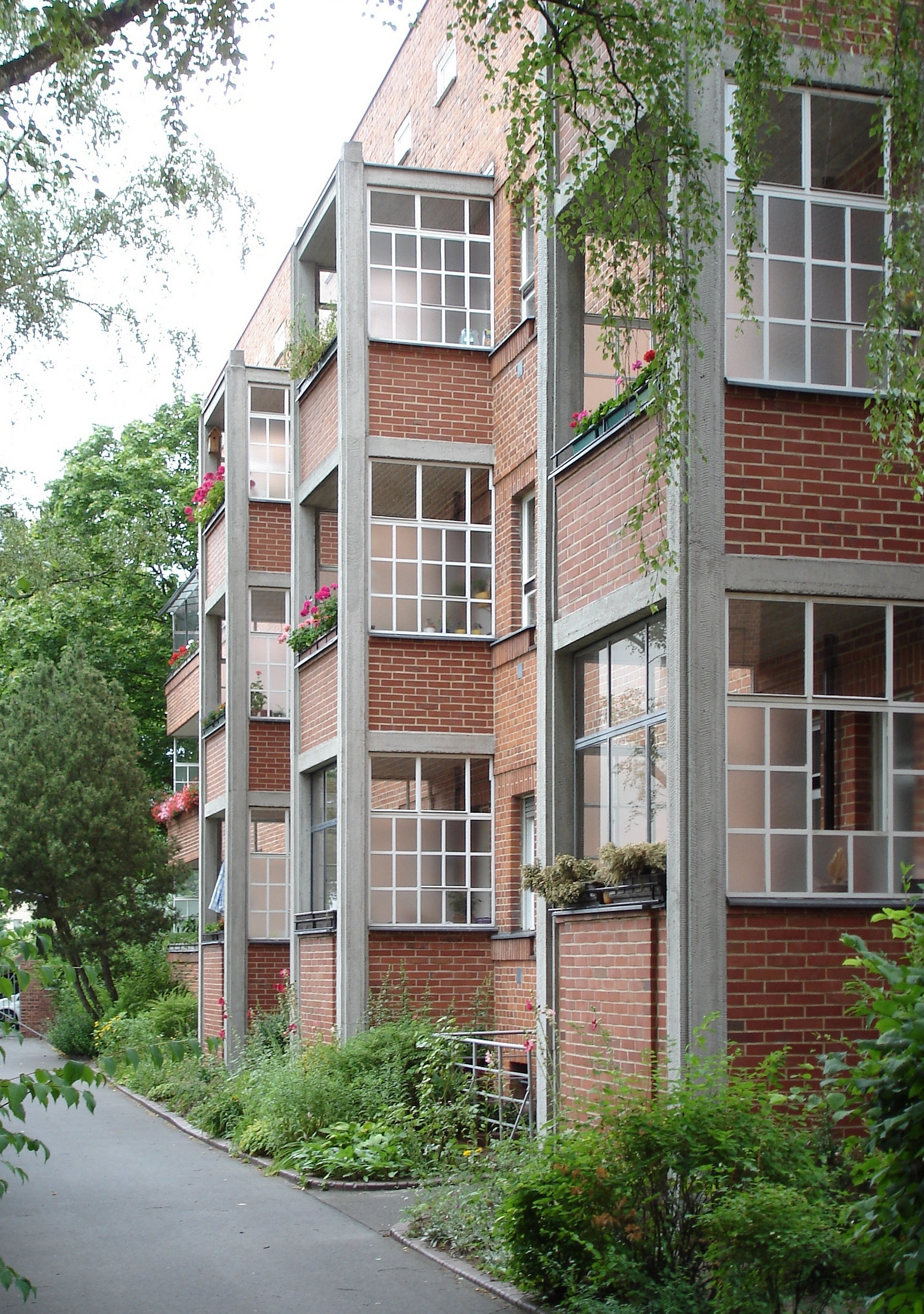 Schillerpark Housing Estate in Berlin-Wedding; back view of the buildings Corker Straße 33 and 35 to Dubliner Straße